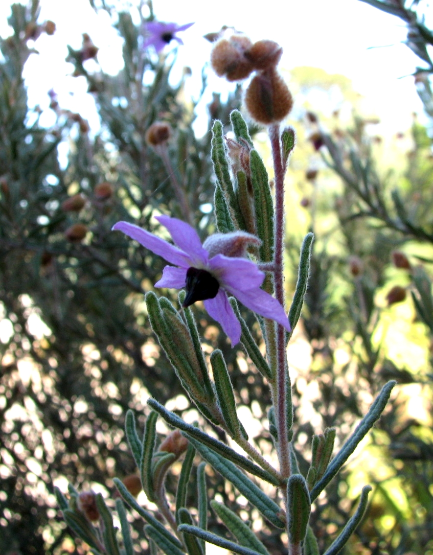 Lysiosepalum involucratum (labelled), Geelong Botanic Gardens, Victoria, Australia